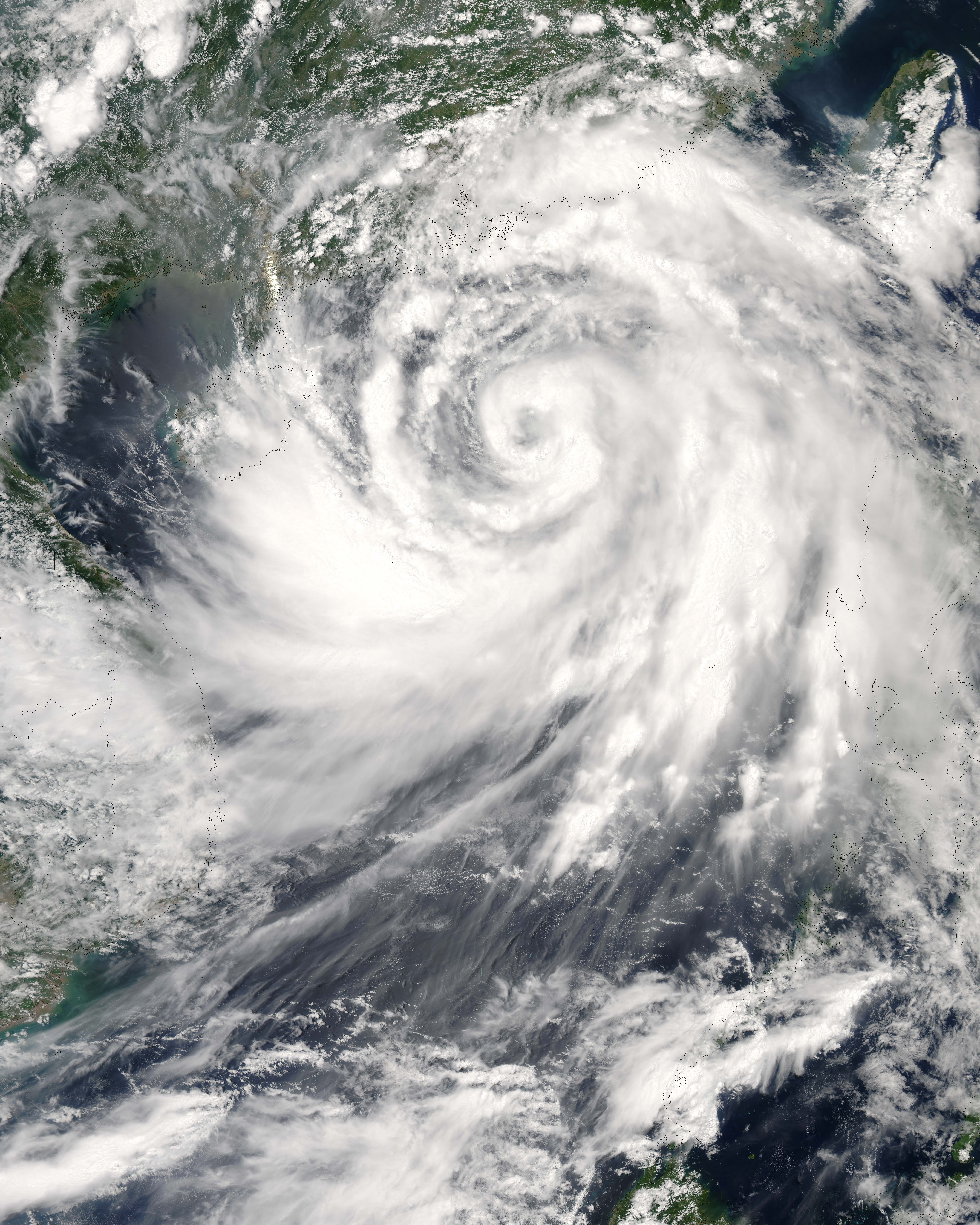 Typhoon Prapiroon formed in the western Pacific on July 31, 2006, off the coast of Luzon, the northernmost of the Philippine Islands. The tropical depression strengthened to storm status in the next day after crossing Luzon, and reached typhoon status by early August 2, as it continued east-northeast across the South China Sea towards the Asian mainland. The storm system was blamed for some six deaths in the Philippines as it crossed the island. As of August 3, it was predicted to make landfall in southern China not far from Hainan Island, packing forecasted winds around 115 kilometers per hour (73 miles per hour). Fishing boats were ordered into port, and rescue teams were being prepared for possible flooding and landslides. This photo-like image was acquired by the Moderate Resolution Imaging Spectroradiometer (MODIS) on the Aqua satellite on August 2, 2006, at 1:50 p.m. local time (05:50 UTC). Prapiroon had a very well-defined spiral shape and active thunderstorm systems (bright, puffy clouds) close to the eyewall. Prapiroon at the time the Aqua satellite passed overhead had a partially opened eye: the center of the storm still had some light cloud cover. Sustained winds in the storm system were estimated to be around 120 kilometers per hour (75 miles per hour) around the time the image was captured, according to the University of Hawaii’s Tropical Storm Information Center. The high-resolution image provided above is provided at the full MODIS spatial resolution (level of detail) of 250 meters per pixel. The MODIS Rapid Response System provides this image at additional resolutions.